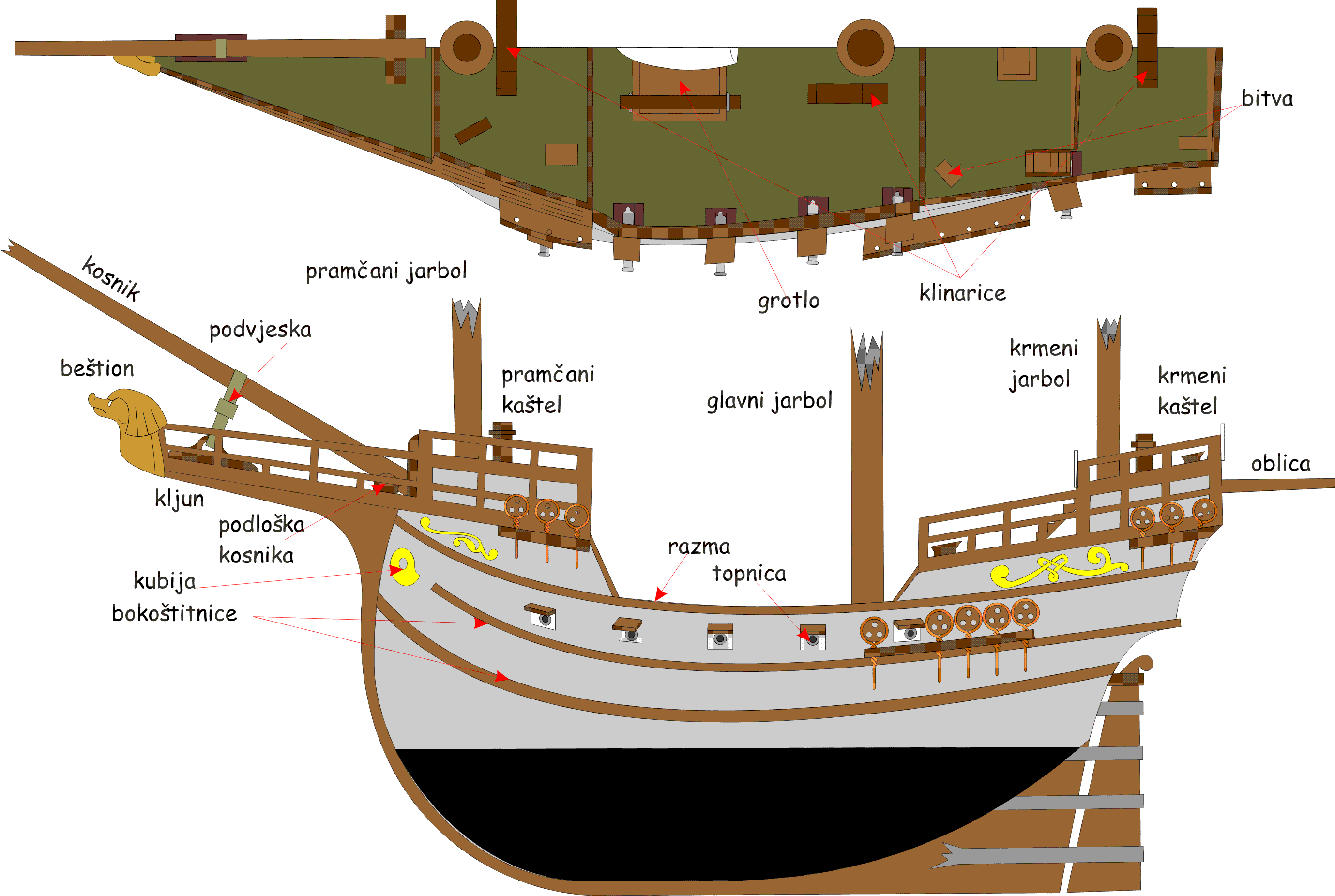 Karaka ,nava